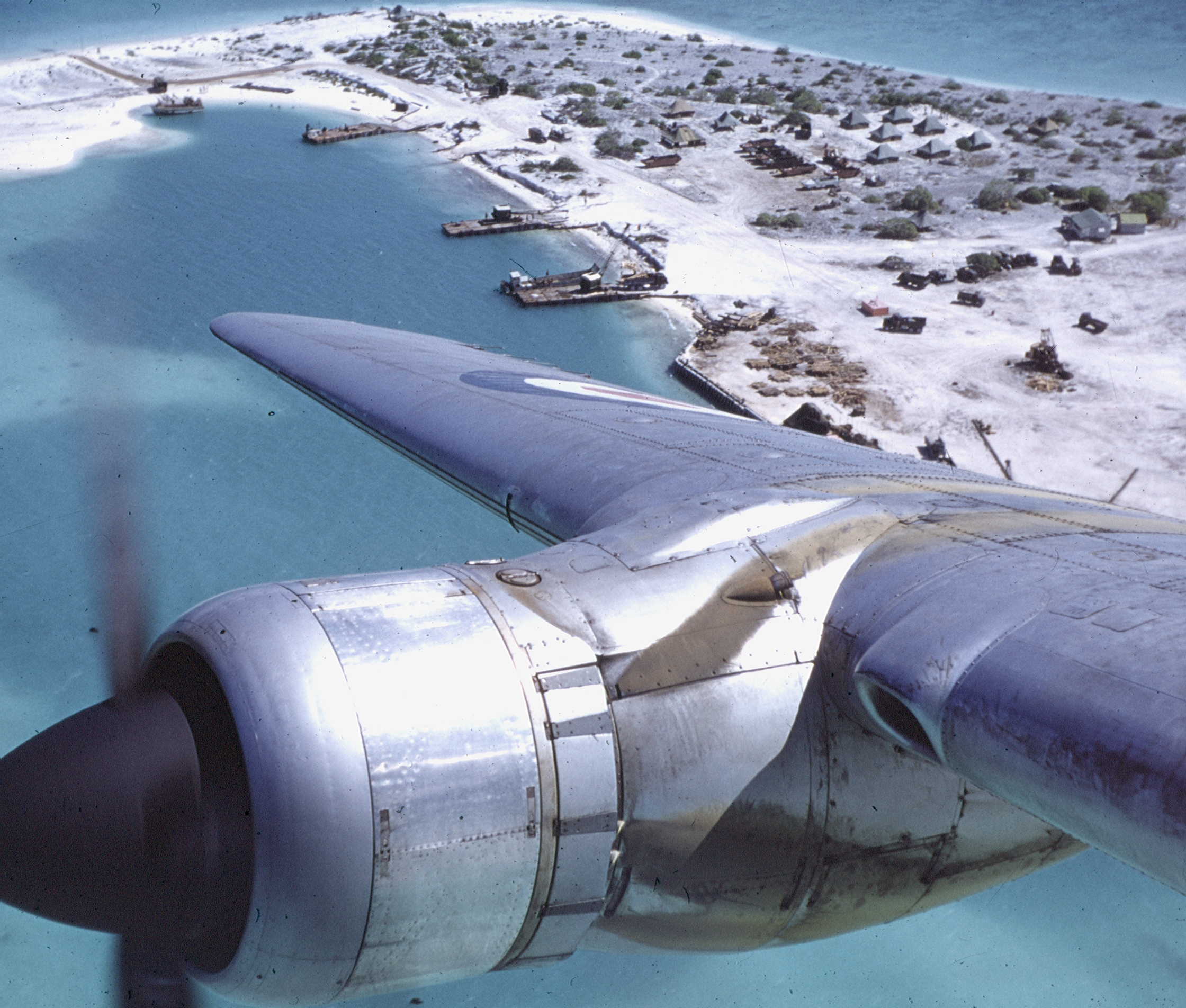 A Handley Page Hastings (TG 582) flying over London, Christmas Island (now Kiritimati), Line Islands, at the time of the British H Bomb test.